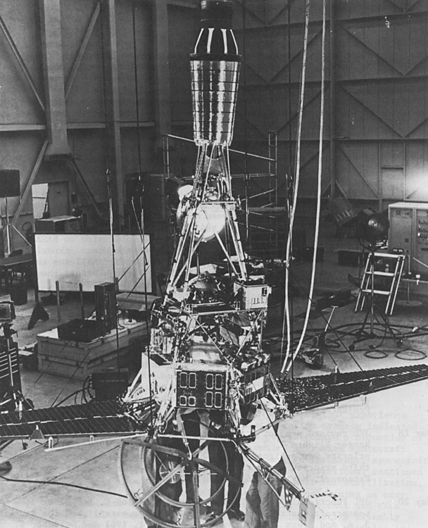 Ranger 1 was a spacecraft whose primary mission was to test the performance of those functions and parts necessary for carrying out subsequent lunar and planetary missions using essentially the same spacecraft design. A secondary objective was to study the nature of particles and fields in interplanetary space.